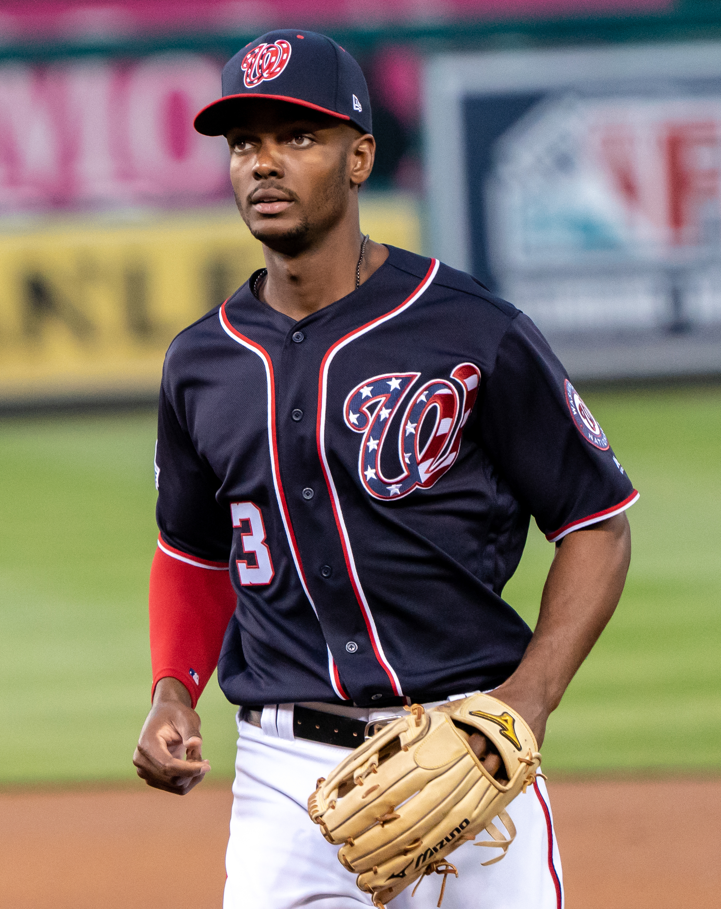 Michael A. Taylor of the Washington Nationals runs off the field during a 2018 game at Nationals Park in Washington, D.C.